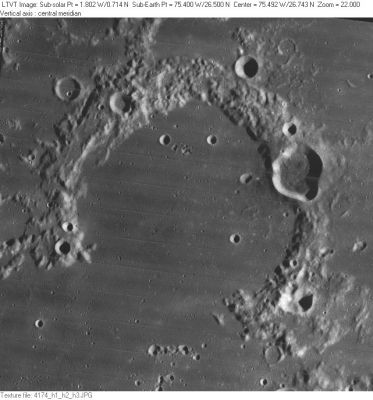 Russell lunar crater - image LO-IV-174H LTVT